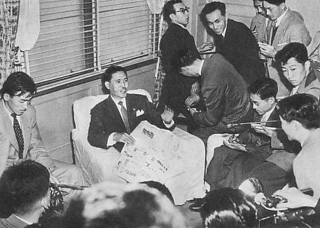 Hozenkeizai-Kai Incident